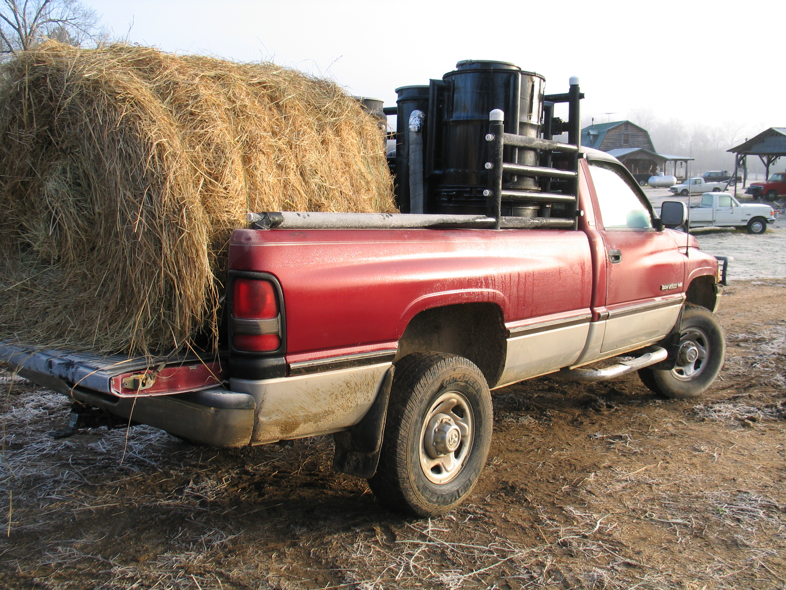 Wayne Keith's Dodge V10 hauling hay with woodgas.